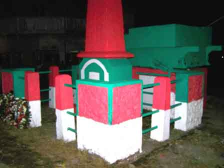 tugu perjuangan kota tigalingga